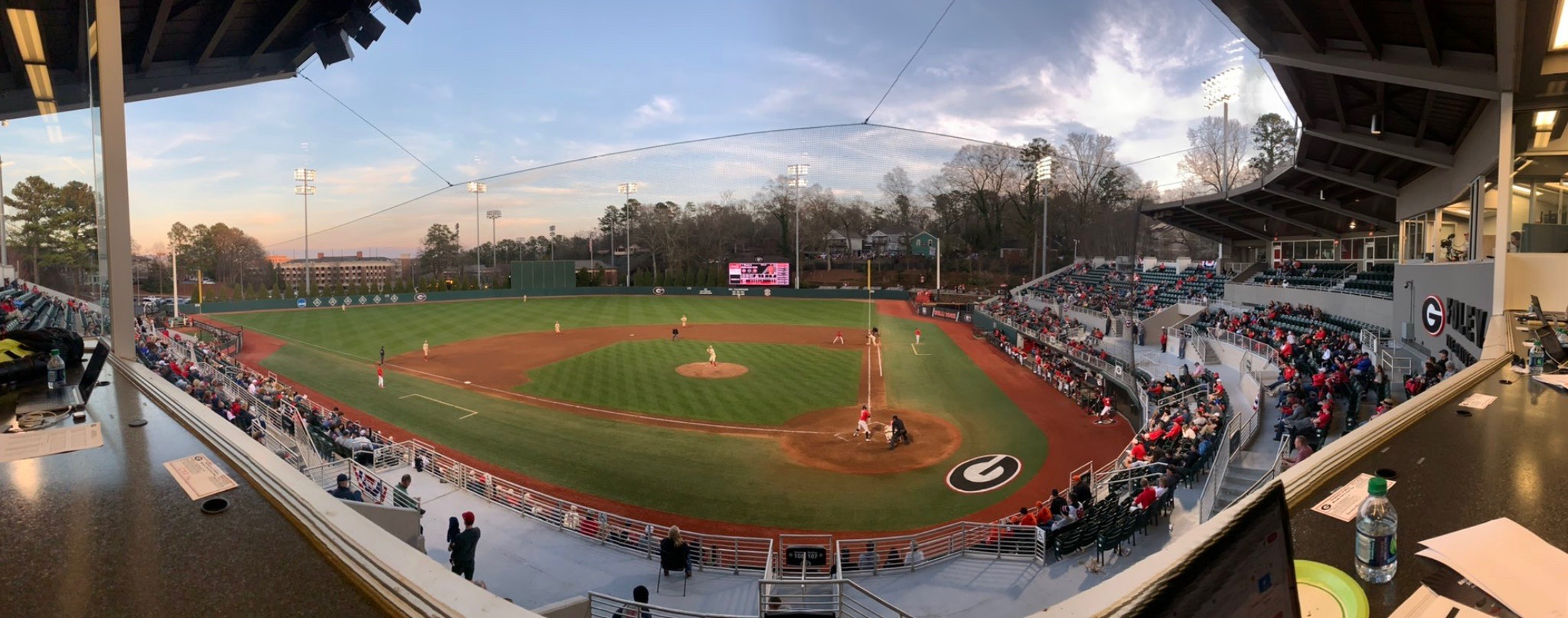 Foley Field, UGA Baseball